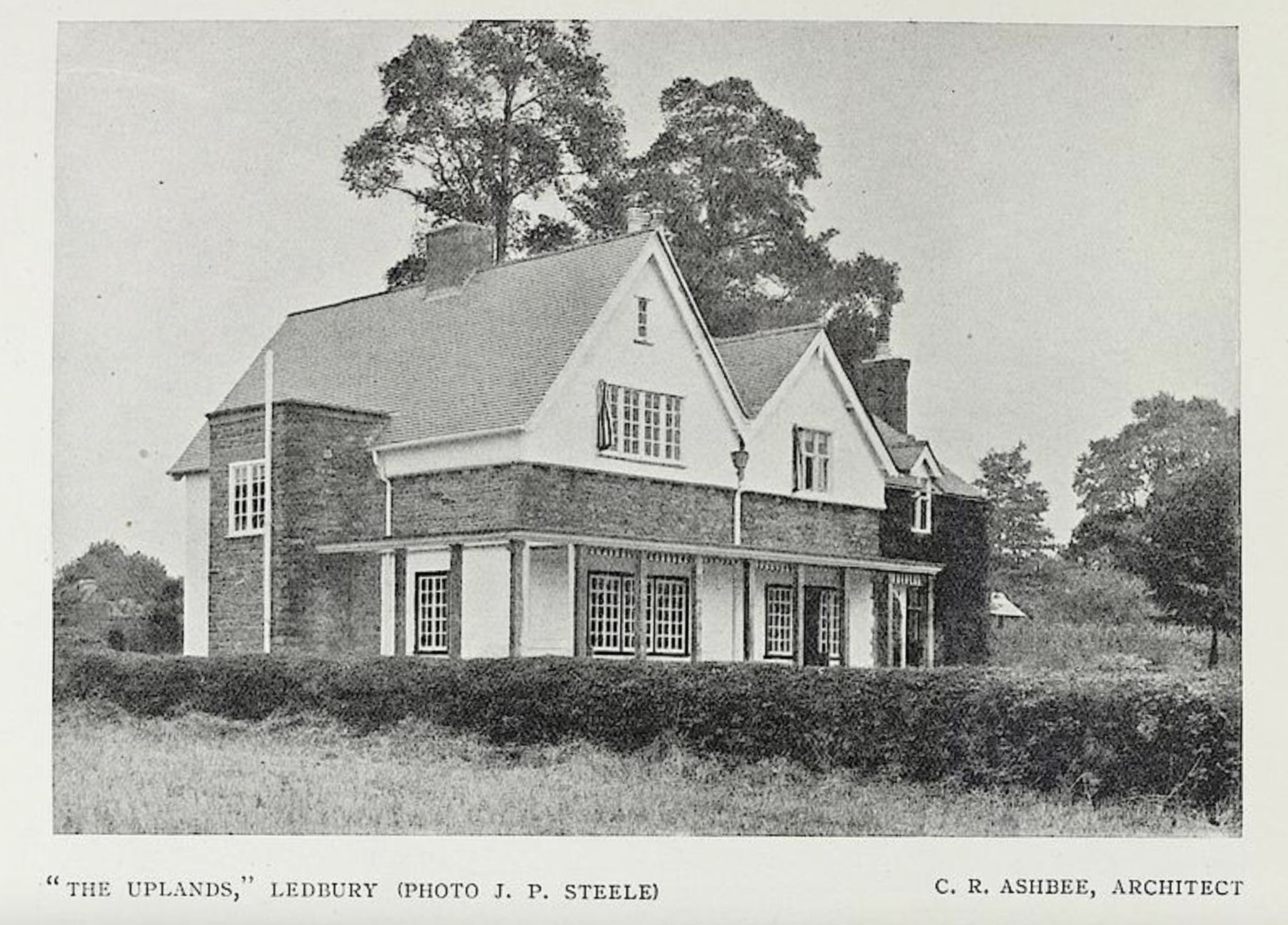 The Uplands, Ledbury, by C.R. Ashbee, Architect, from the Studio Yearbook 1907